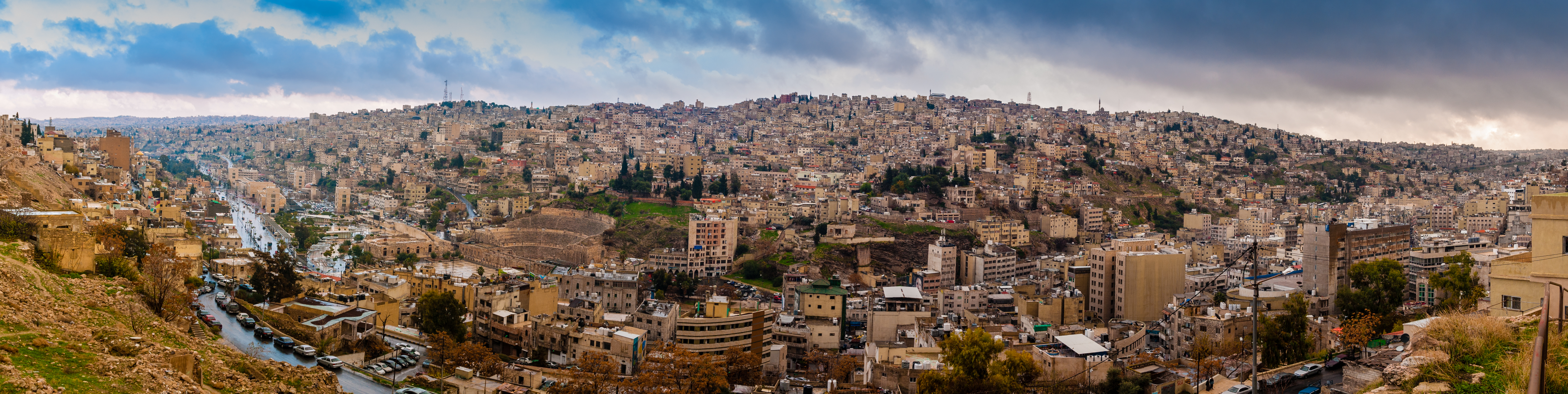 Panorama of Amman, the capital city of the Hashemite Kingdom of Jordan, from the Citadel hill